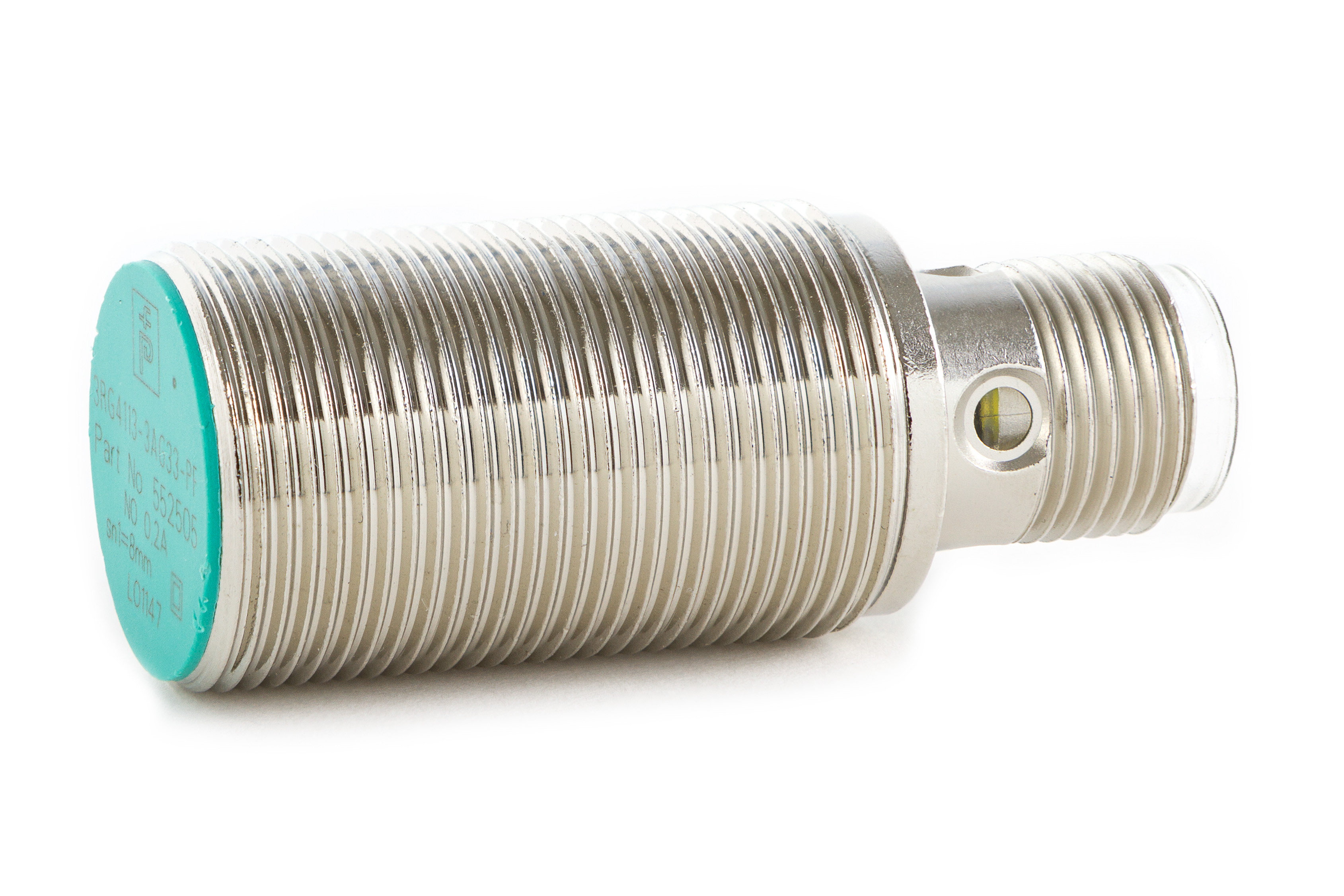 Inductive proximity switch made by Pepperl+Fuchs, 18mm diameter (M18 screw), lenght 45mm, 8mm operating distance